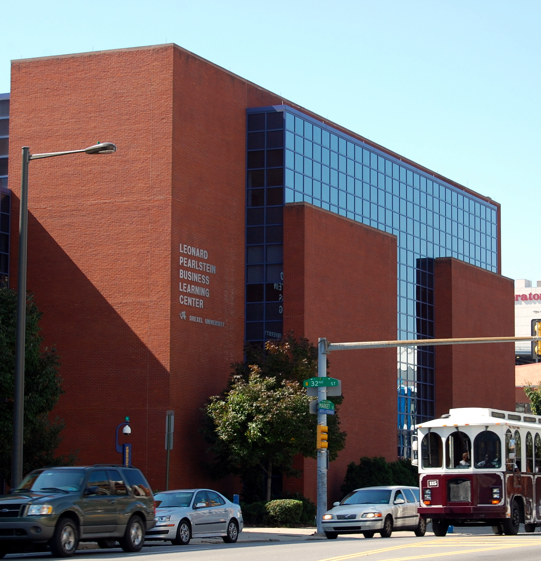 Leonard Pearlstein building of the Bennett S. LeBow College of Business